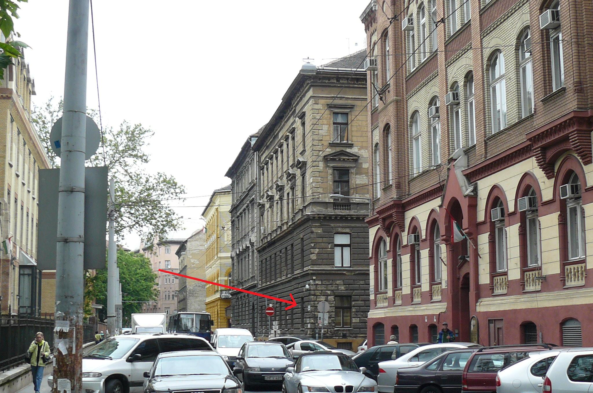 Pál utca, Mária utca - Budapest.